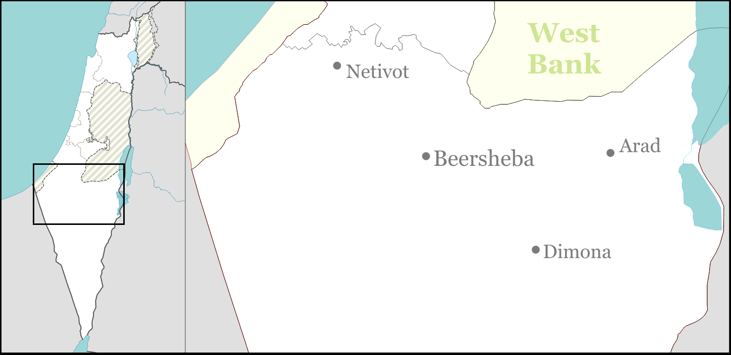 Large part of the Negev Desert for Israeli location maps.